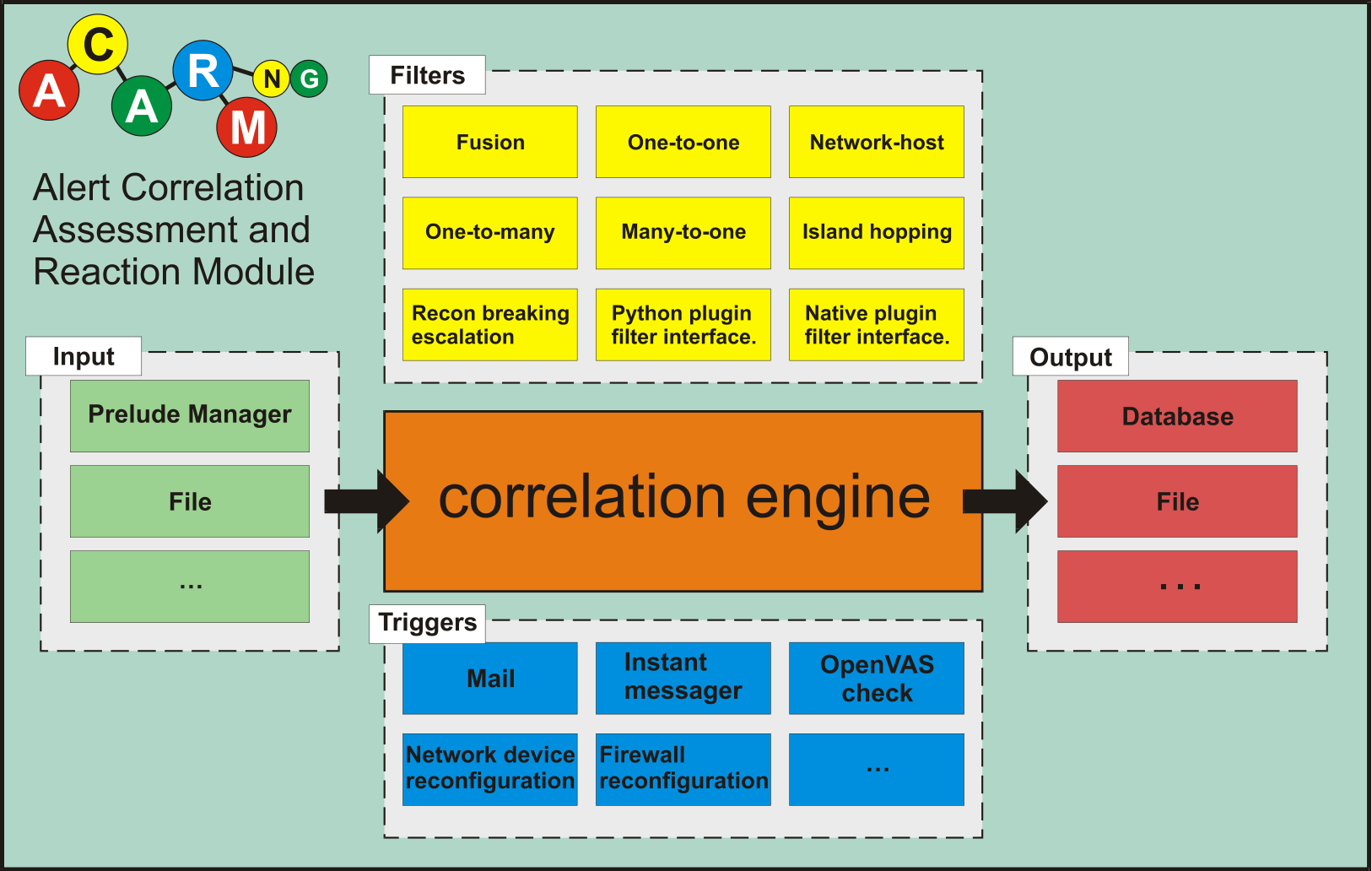 Overview of the ACARM-ng plugin architecture.